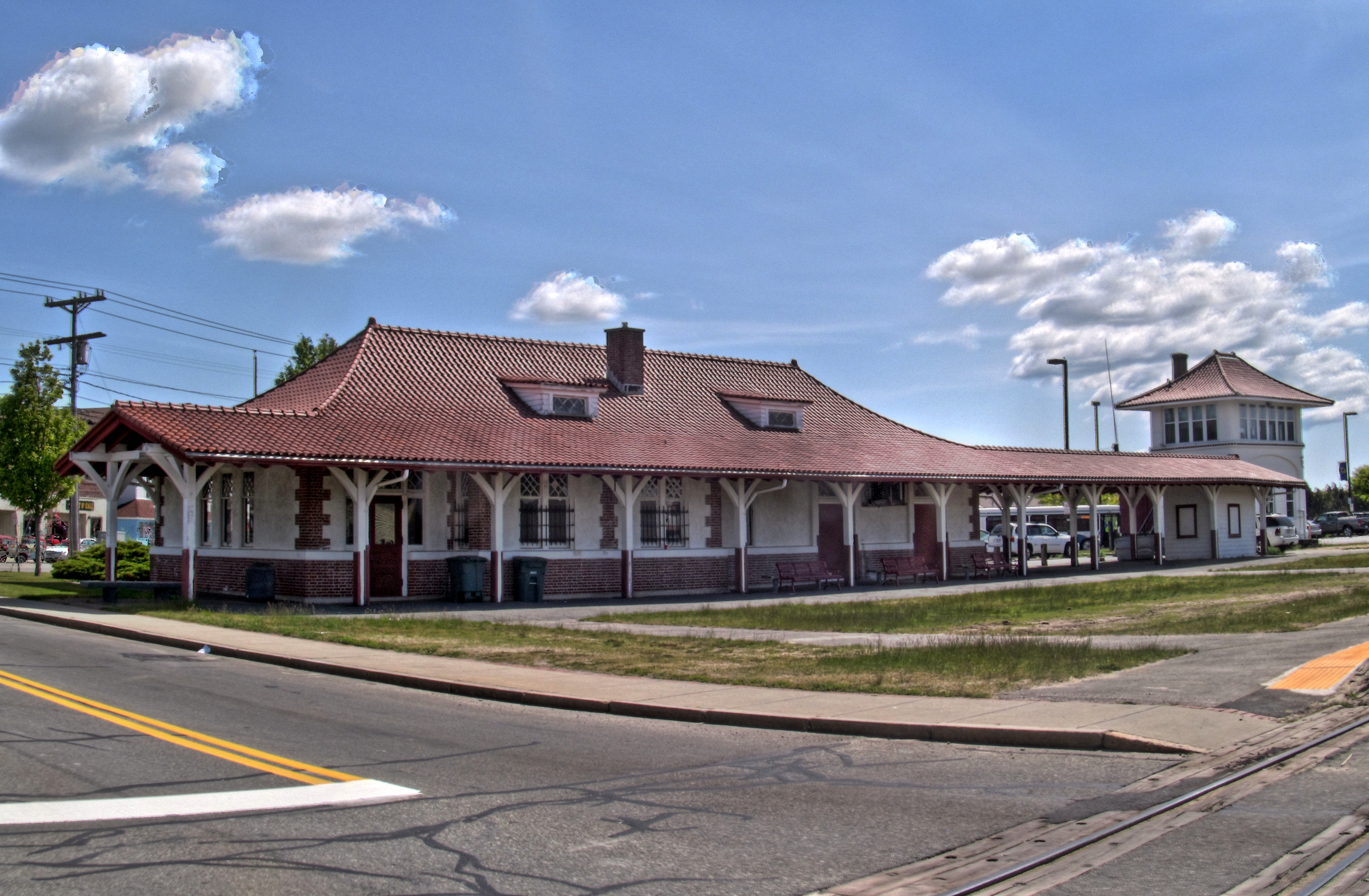 High dynamic range image of Buzzards Bay Train Station in Bourne, Massachusetts